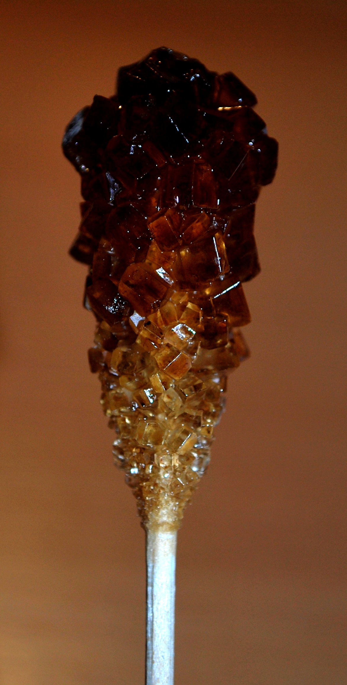 Rock candy on a stick